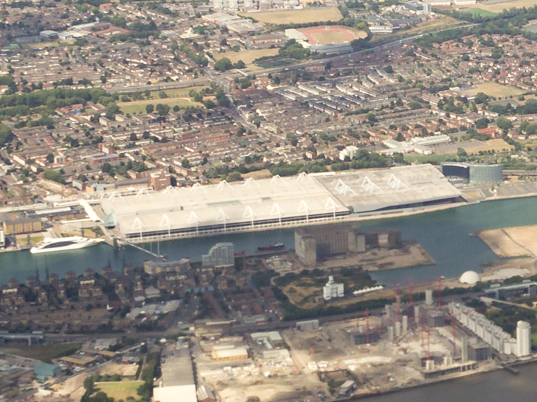 Aerial photograph of ExCeL London taken on a Boeing 787-8 Dreamliner registration N967AM on approach to London Heathrow Airport (LHR/EGLL).